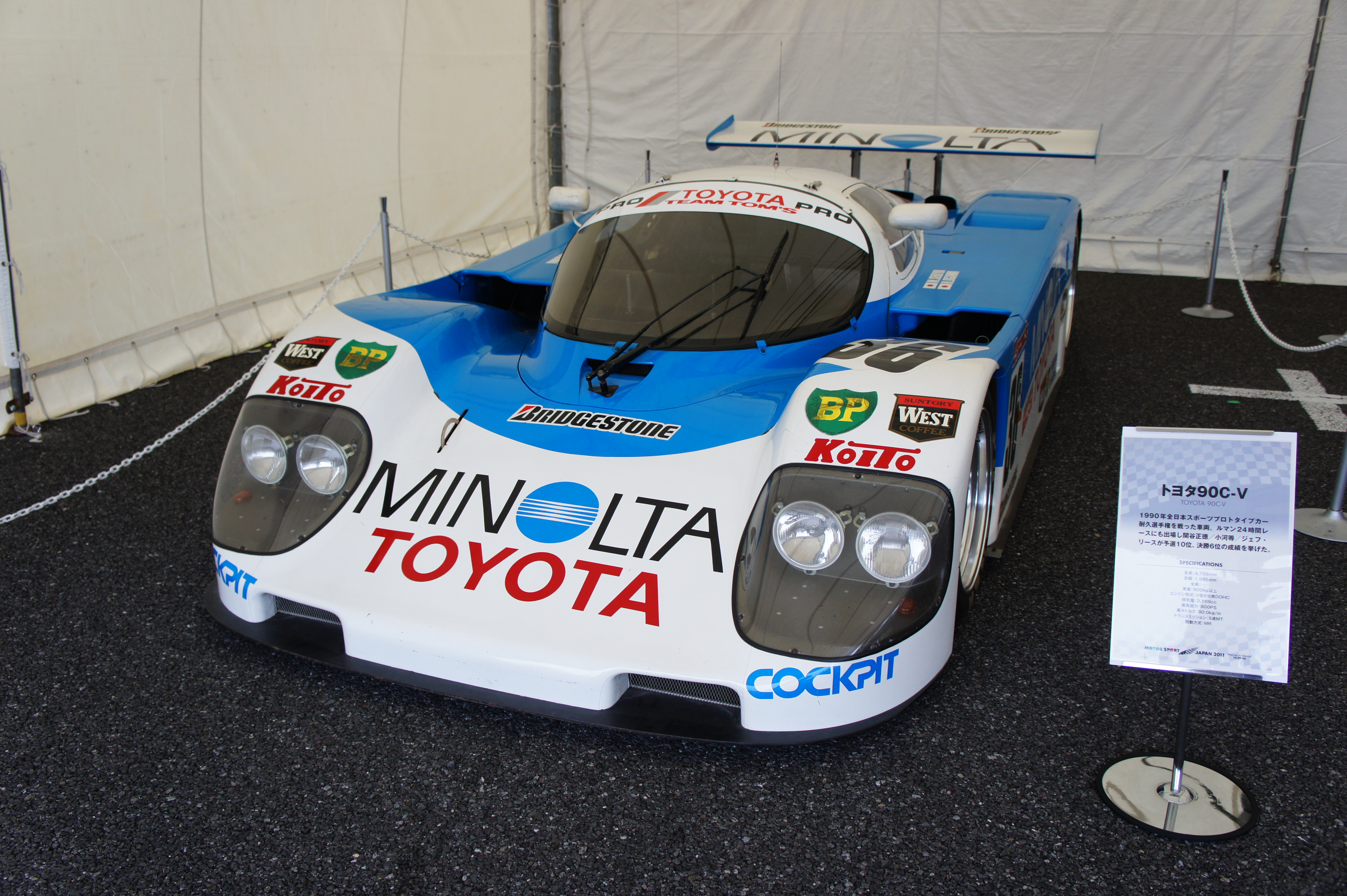 Toyota 90C-V at Motor Sport Japan 2011